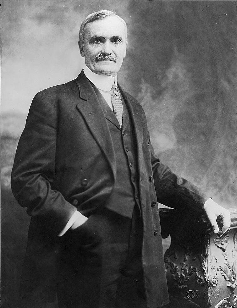 John Hall Stephens, representative from Texas, three-quarter length portrait